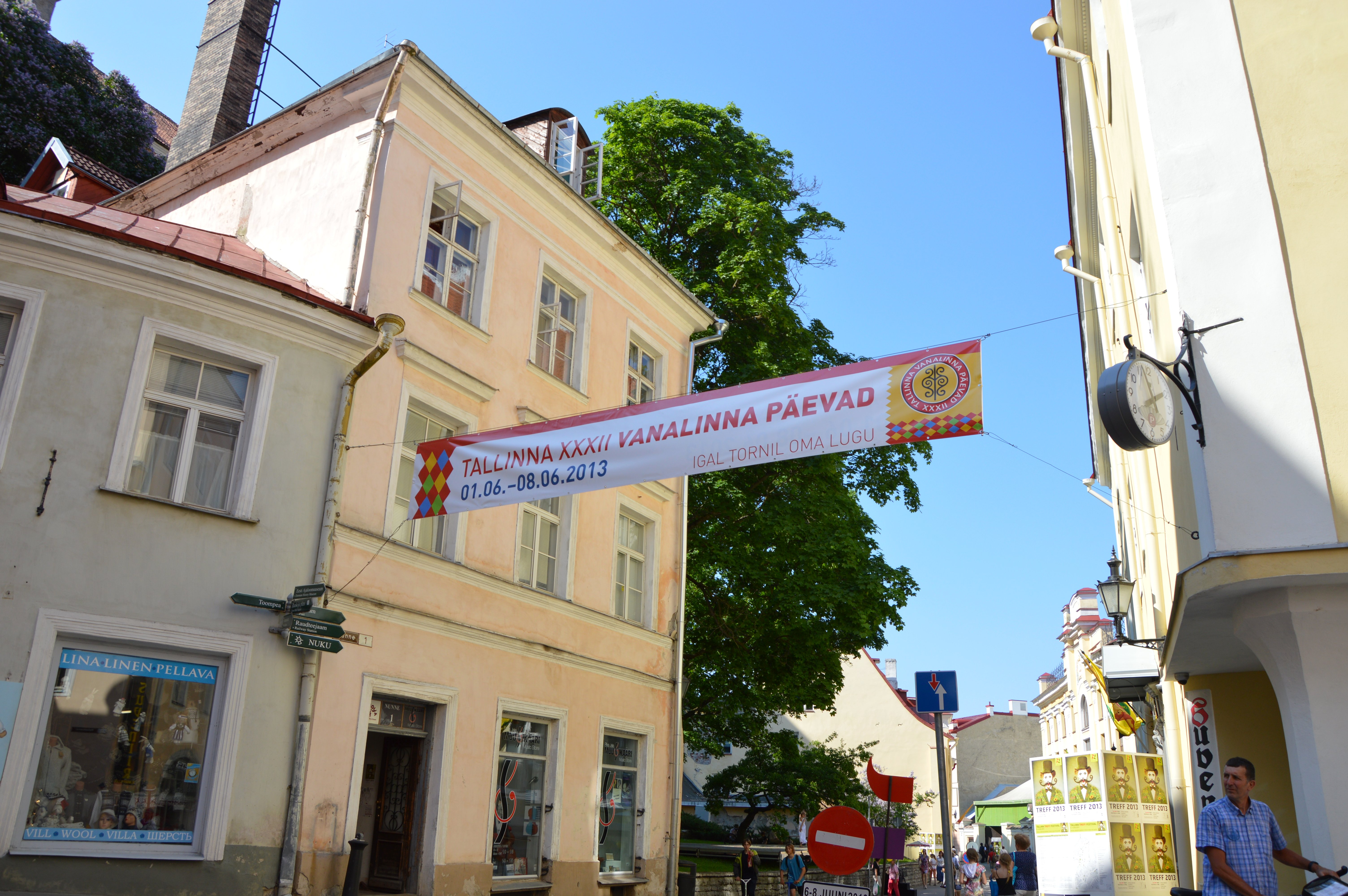 Tallinn